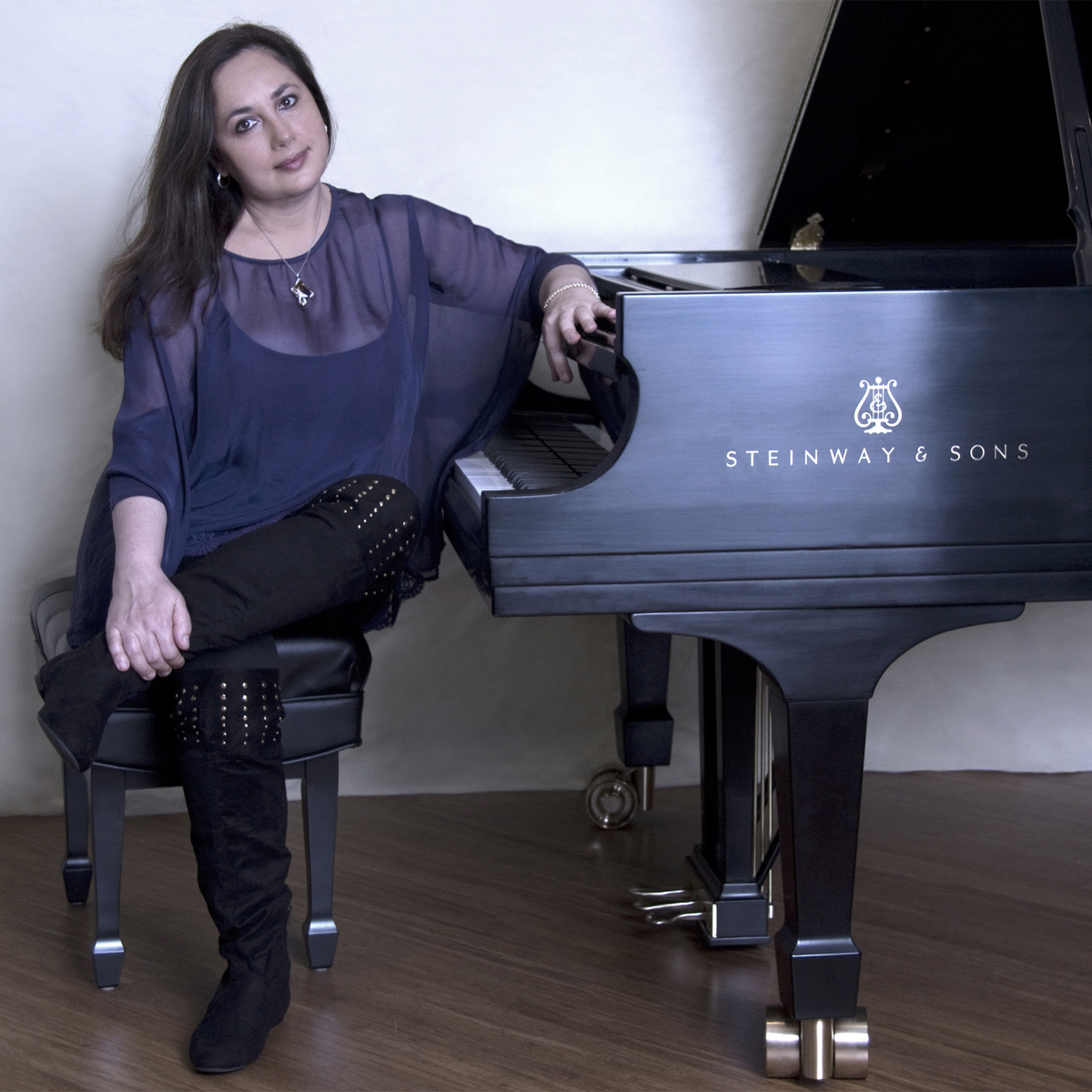 Tamriko Siprashvili is a Steinway Artist.